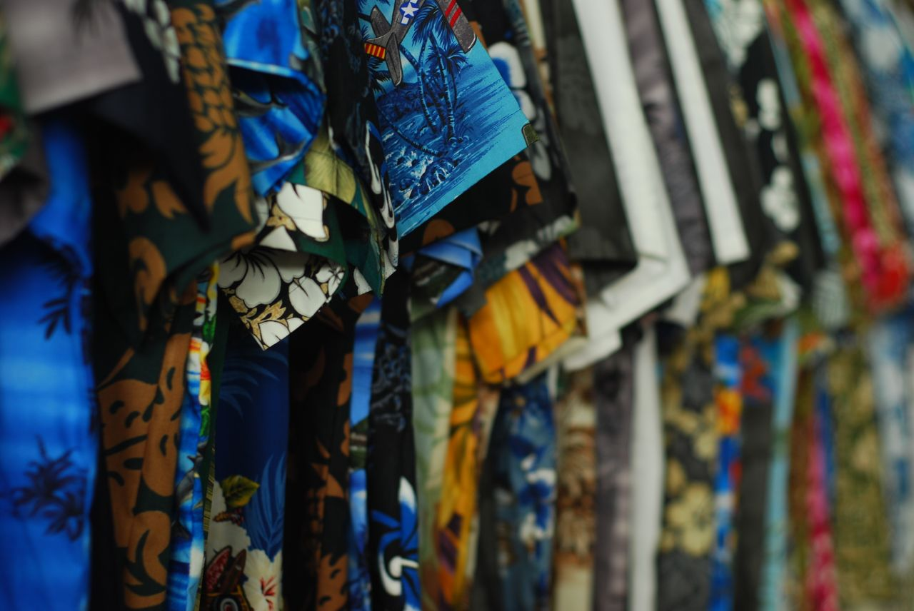 Aloha shirts in Papeete, French Polynesia